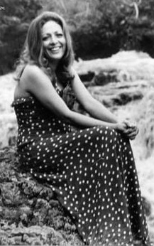 Jovita Díaz- actriz y cantante argentina